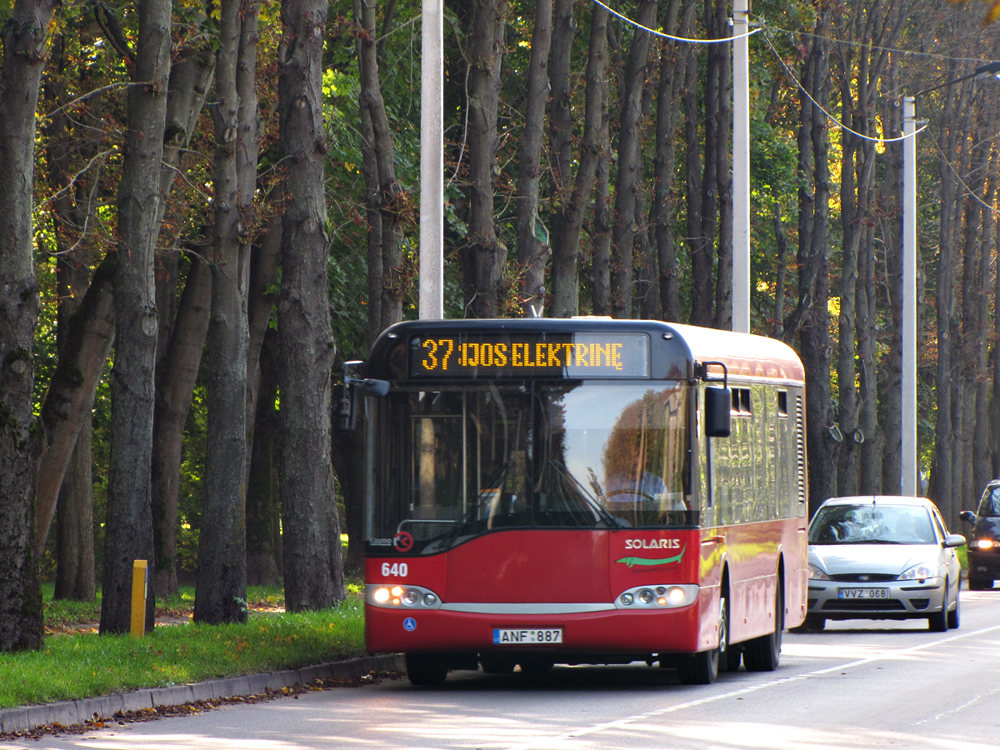 Solaris Urbino 12 bus (#640, reg. ANF 887) in Kaunas, Lithuania. Built 2005, UAB Kauno autobusai operator.